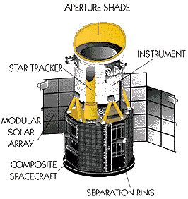 Wide Field Infrared Explorer (WIRE) diagram